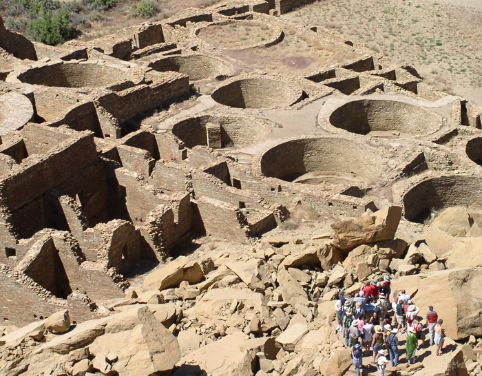 Pueblo Bonito Ruin in Chaco Culture National Historical Park in New Mexico, U.S,A